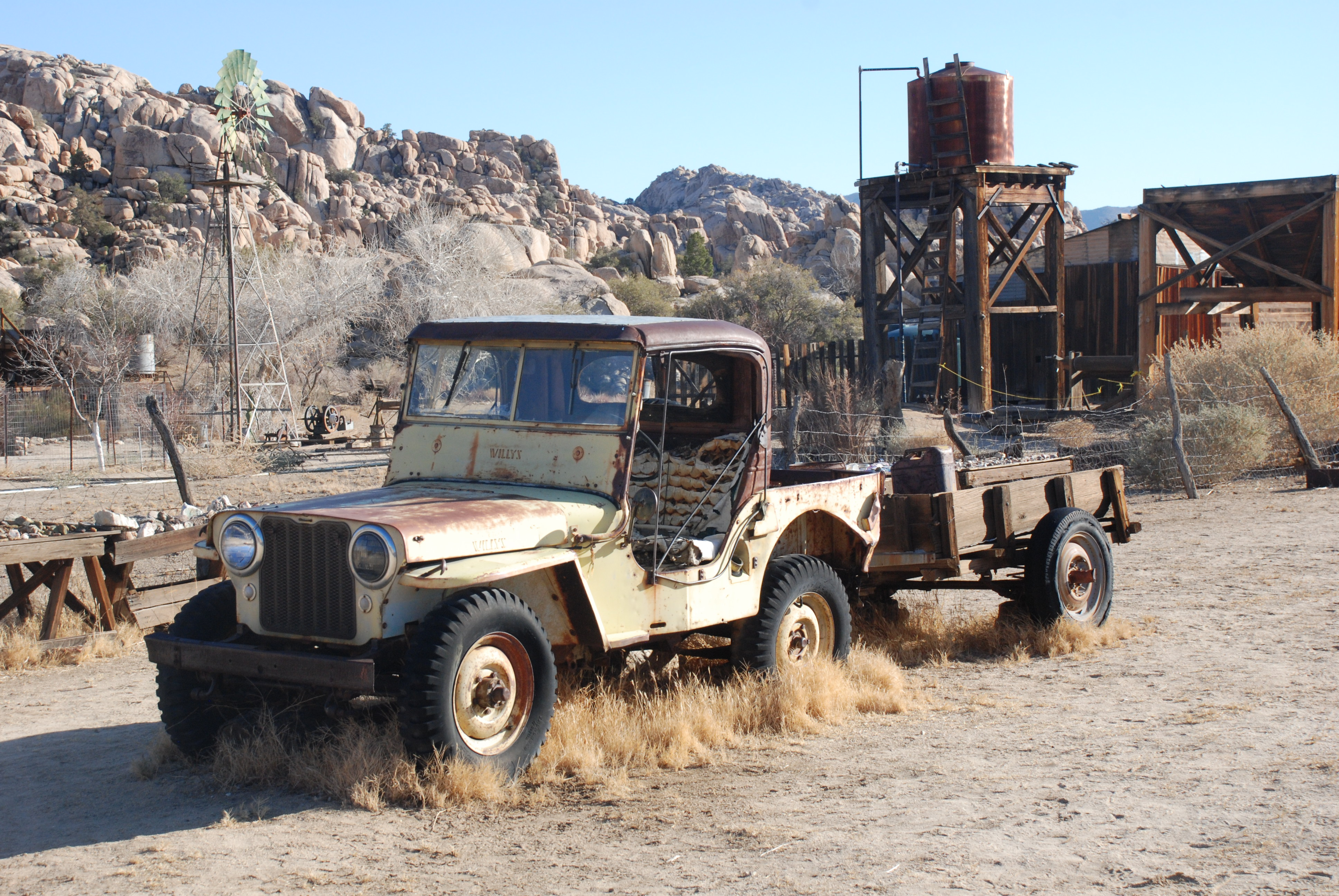 Desert Queen Ranch - Willys-Overland CJ-2A